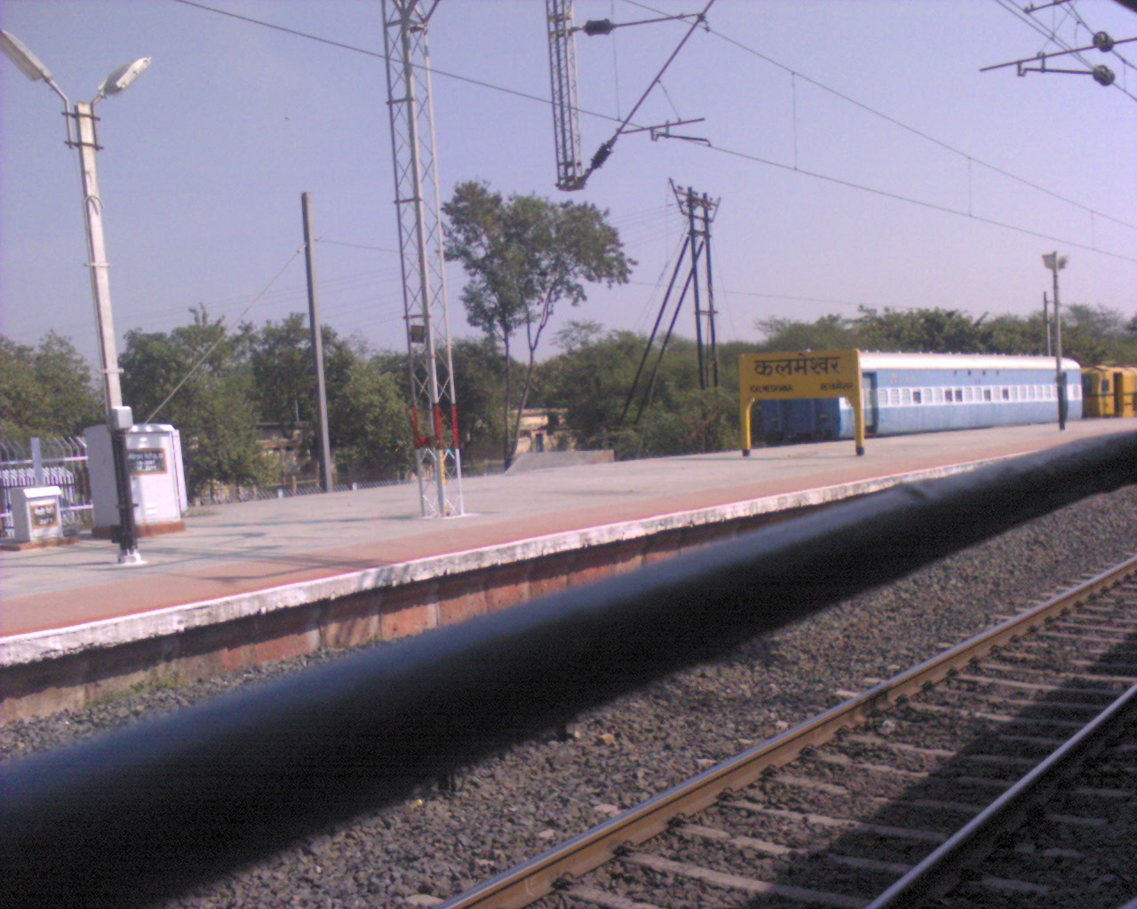 Rail Station, Kalameshwar